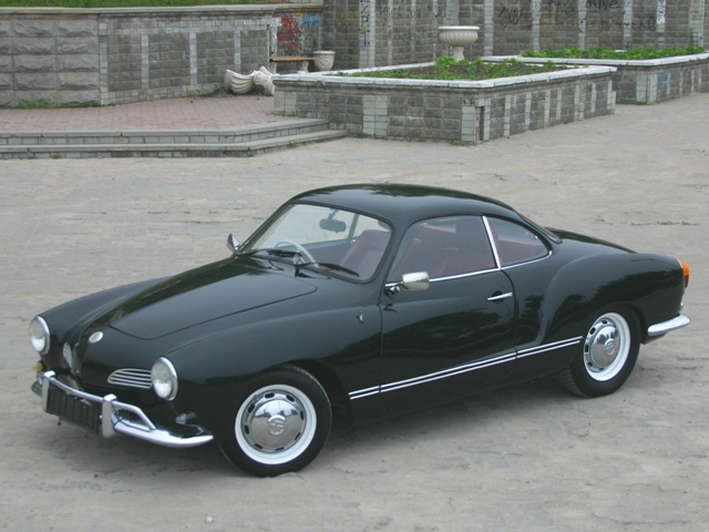 Volkswagen Karmann-Ghia in Vladivostok, Russia